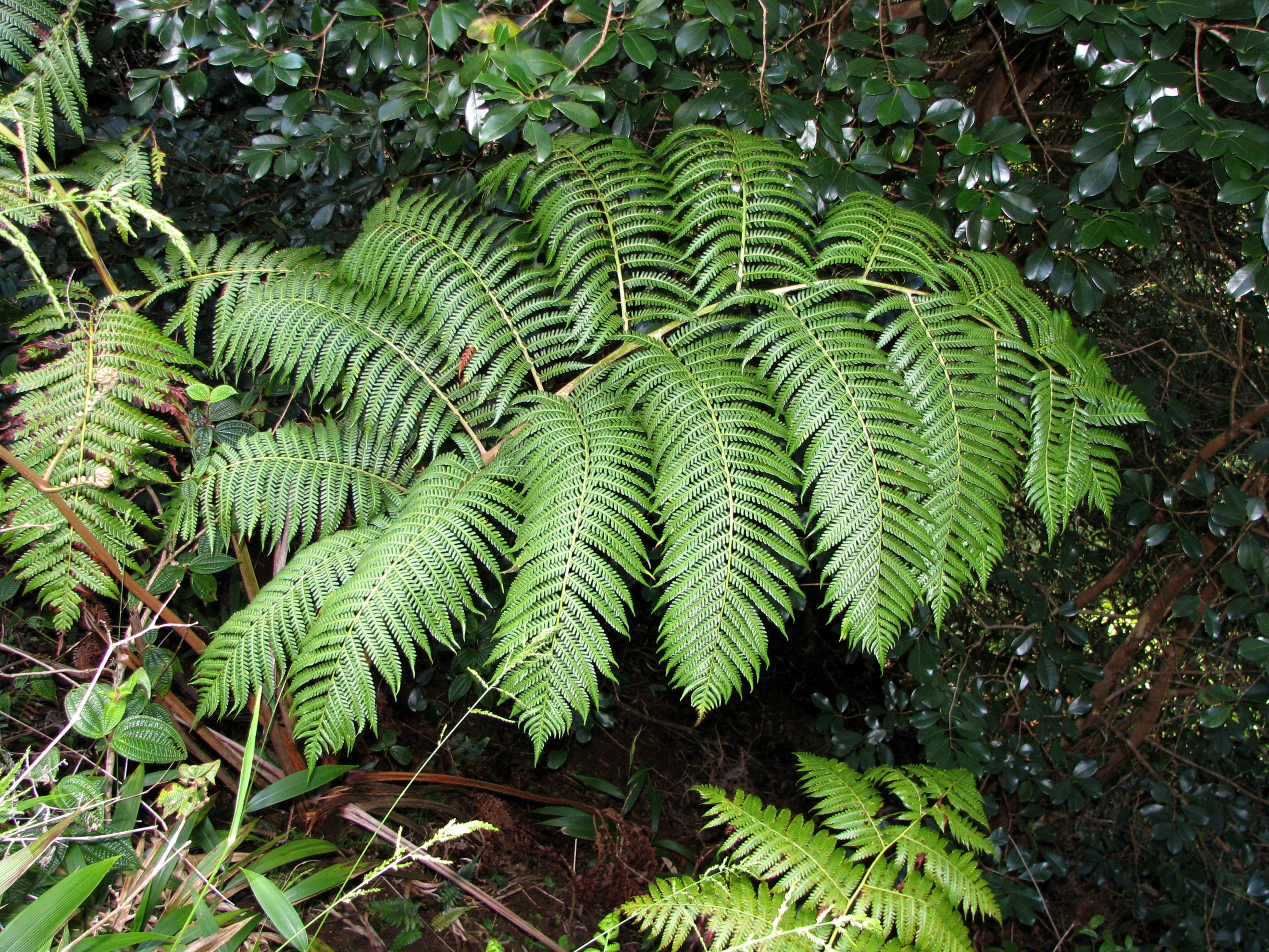 Hāpuʻu or Hāpuʻu meu Cibotiaceae Endemic to the Hawaiian Islands ʻAiea Loop Trail, Oʻahu NPH00011